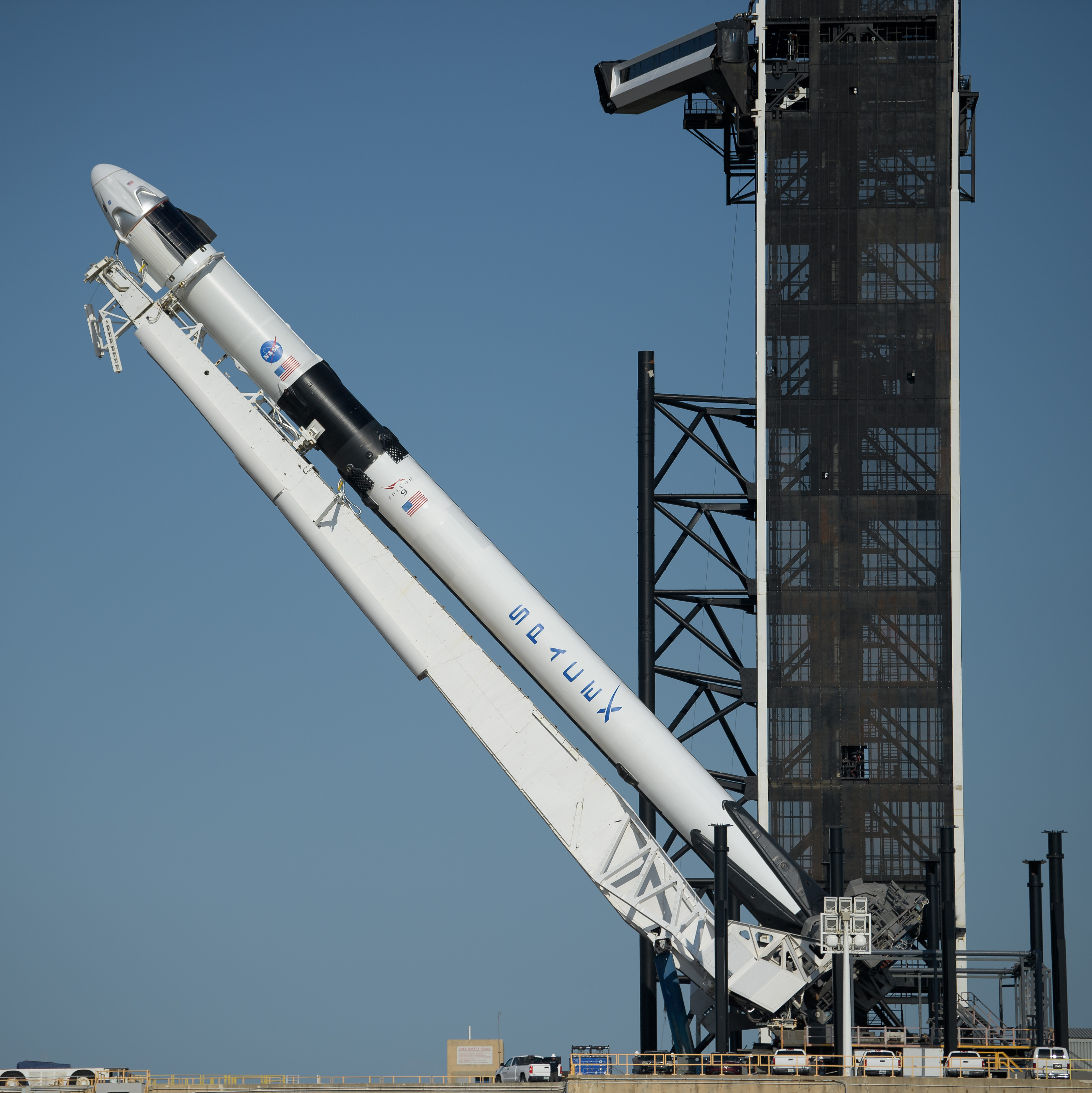 A SpaceX Falcon 9 rocket with the company's Crew Dragon spacecraft onboard is seen as it is raised into a vertical position on the launch pad at Launch Complex 39A as preparations continue for the Demo-2 mission, Thursday, May 21, 2020, at NASA’s Kennedy Space Center in Florida. NASA’s SpaceX Demo-2 mission is the first launch with astronauts of the SpaceX Crew Dragon spacecraft and Falcon 9 rocket to the International Space Station as part of the agency’s Commercial Crew Program. The flight test will serve as an end-to-end demonstration of SpaceX’s crew transportation system. Behnken and Hurley are scheduled to launch at 4:33 p.m. EDT on Wednesday, May 27, from Launch Complex 39A at the Kennedy Space Center. A new era of human spaceflight is set to begin as American astronauts once again launch on an American rocket from American soil to low-Earth orbit for the first time since the conclusion of the Space Shuttle Program in 2011. Photo Credit: (NASA/Bill Ingalls)